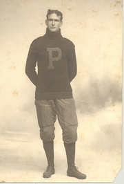 Garfield Weede, suited up for football at the University of Pennsylvania between 1901 and 1904 seasons. Photo copied from the Kansas Sports Hall of Fame